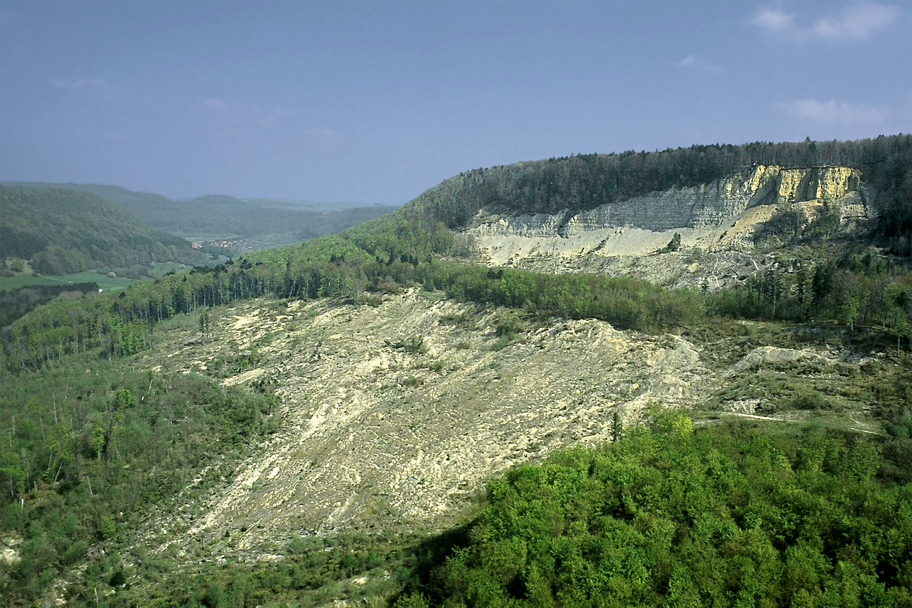 Landslide, a typical geological event in the jurassic limestone of the Swabian Alb, Germany